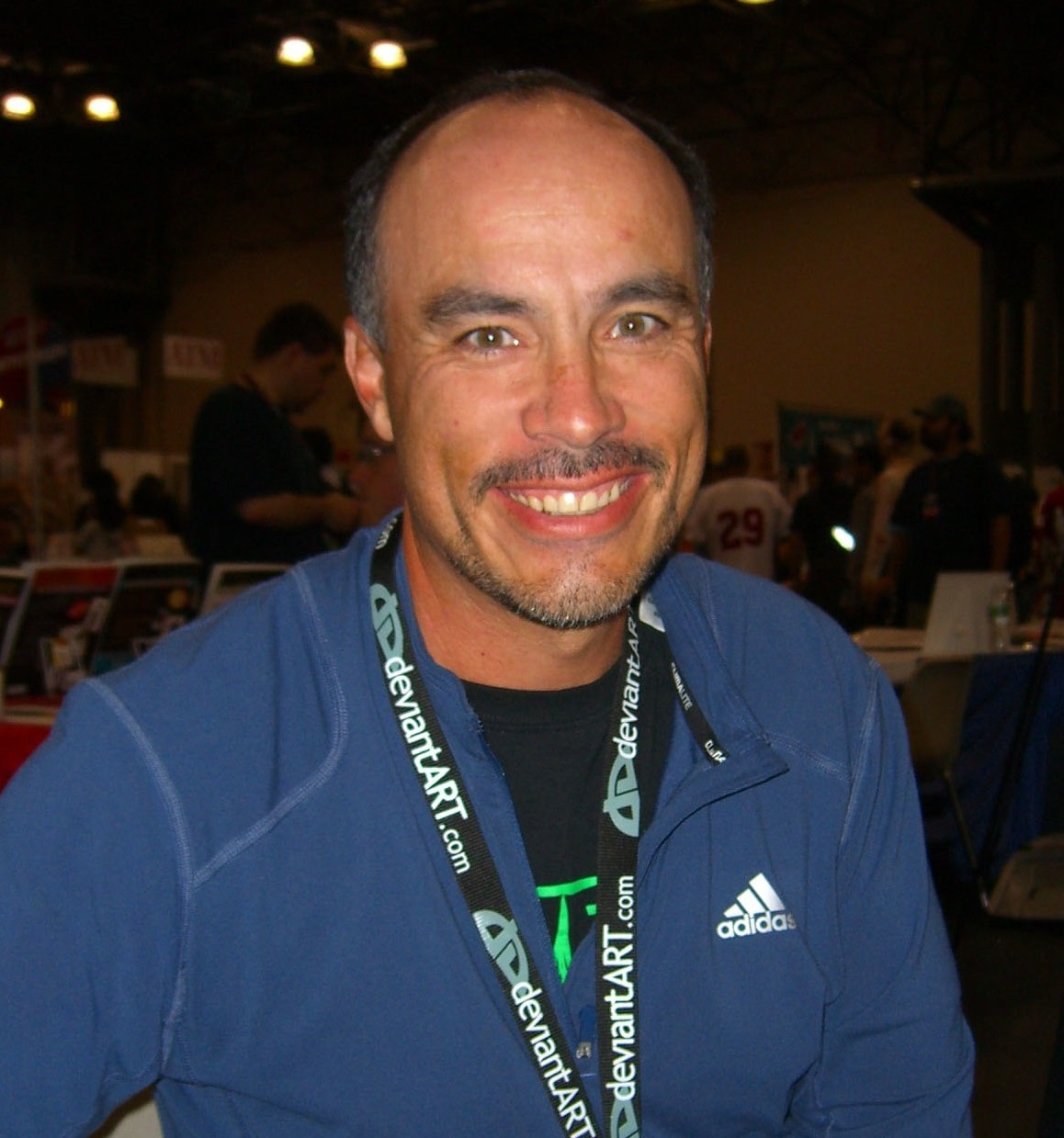 Comics creator Alex Sinclair at the 2011 New York Comic Con, Friday, October 14, 2011. This photo was created by Luigi Novi. It is not in the public domain, and use of this file outside of the licensing terms is a copyright violation.